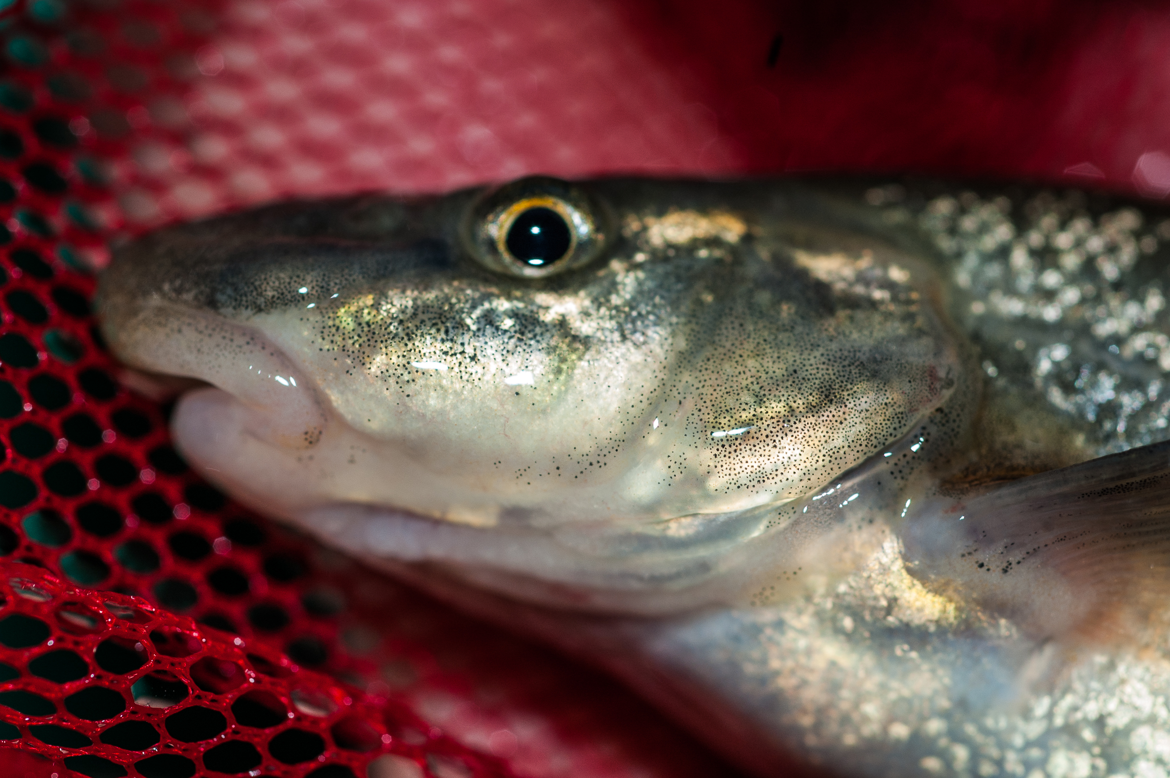 Head of the longnose dace (Rhinichthys cataractae), a a freshwater minnow native to North America. The habitat of the longnose dace is cool to moderately cool streams and rivers with sandy and/or gravelly bottoms. A bottom-dwelling fish, the small dots on the dace's body help camouflage it against the sand, enabling the longnose dace to avoid predators.